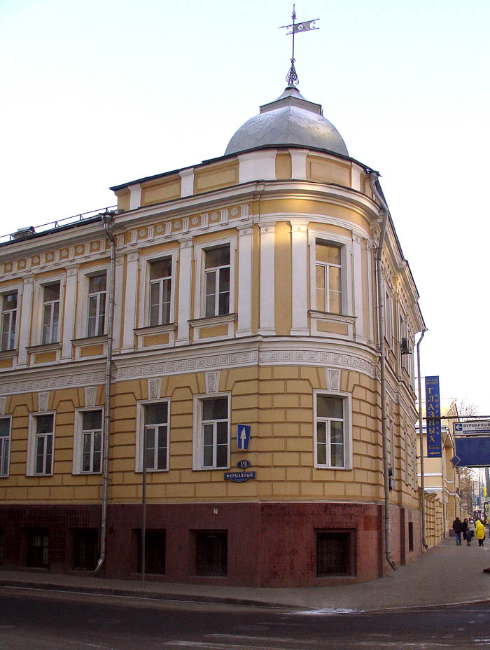 19, Furmanny Lane, Moscow - The Eye Hospital